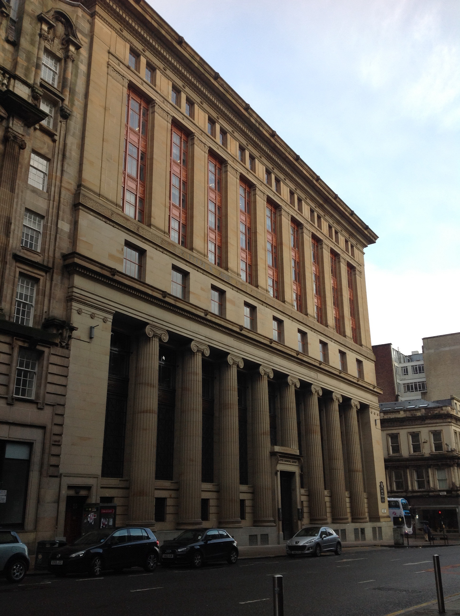 Union Bank of Scotland, 110-120 St Vincent Street, Glasgow, by James Miller (1924)